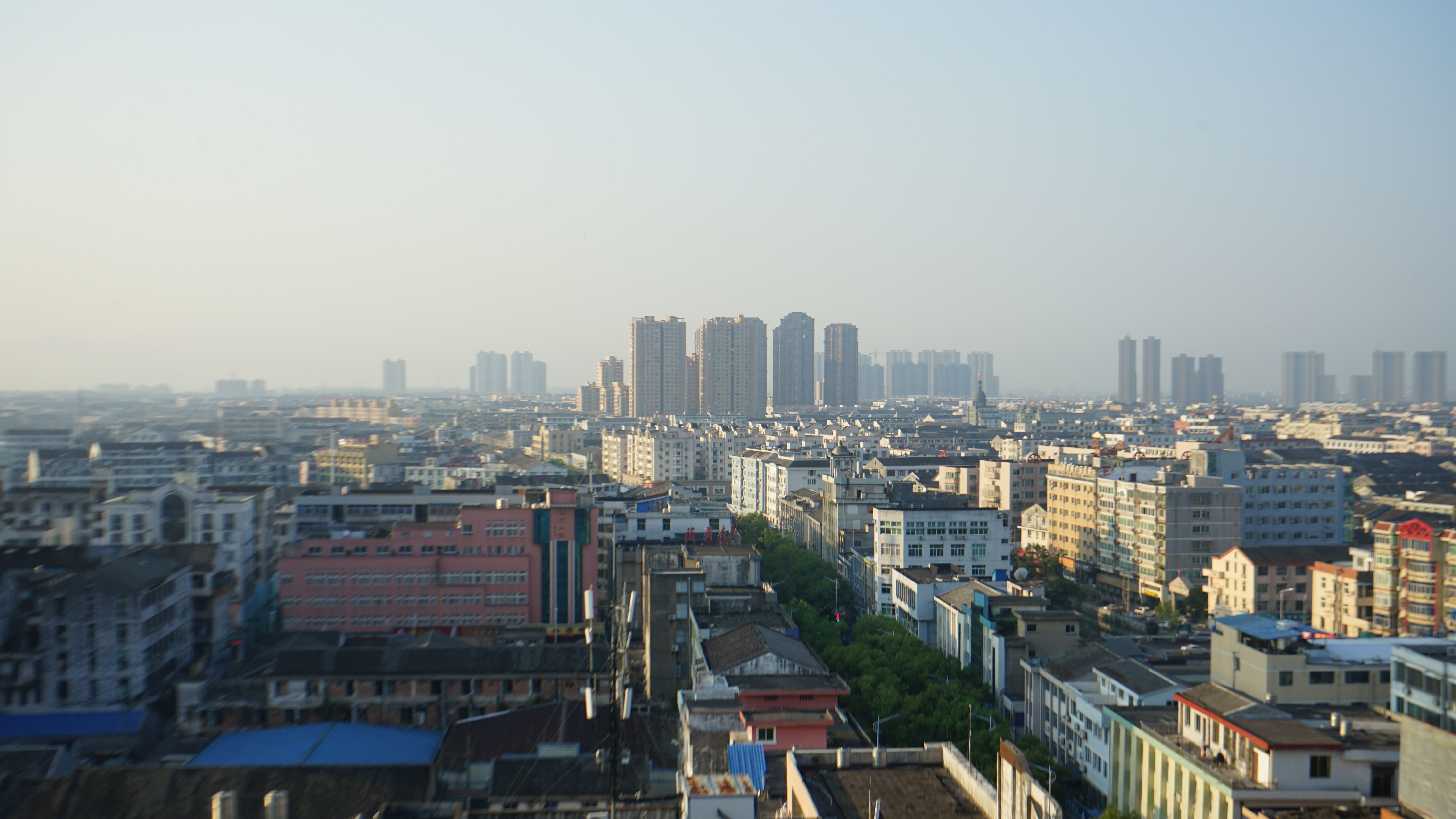 Taken from a high residential building near one of the centers of the Town of Longgang, the picture presents an overall view eastwards the building which may cover the half of the Town. The Town is highly populated with around .3 million residents and a bunch of industrial zones located in the eastern part.